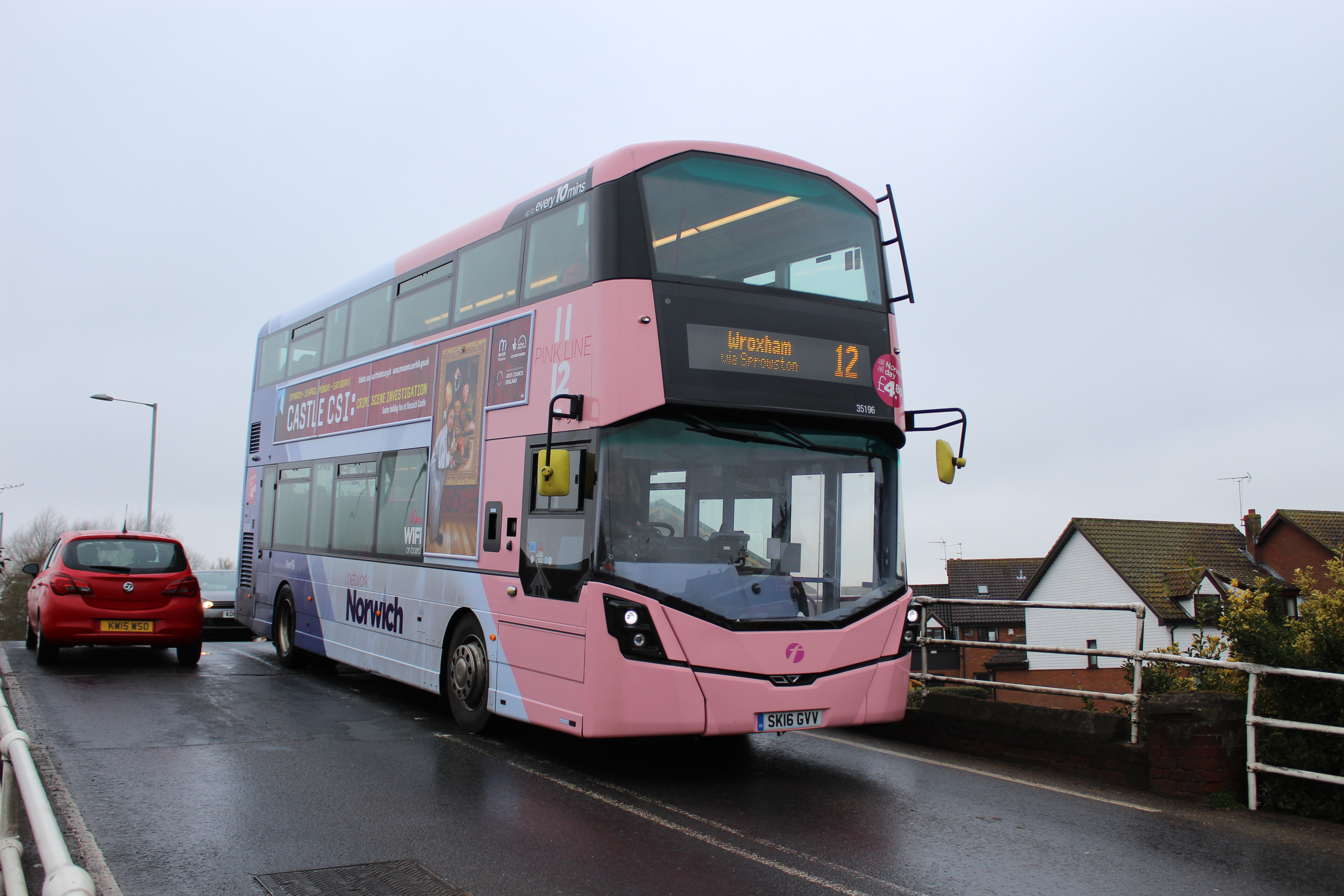 A Wright StreetDeck carrying Network Norwich Pink Line branding in Wroxham, Norfolk